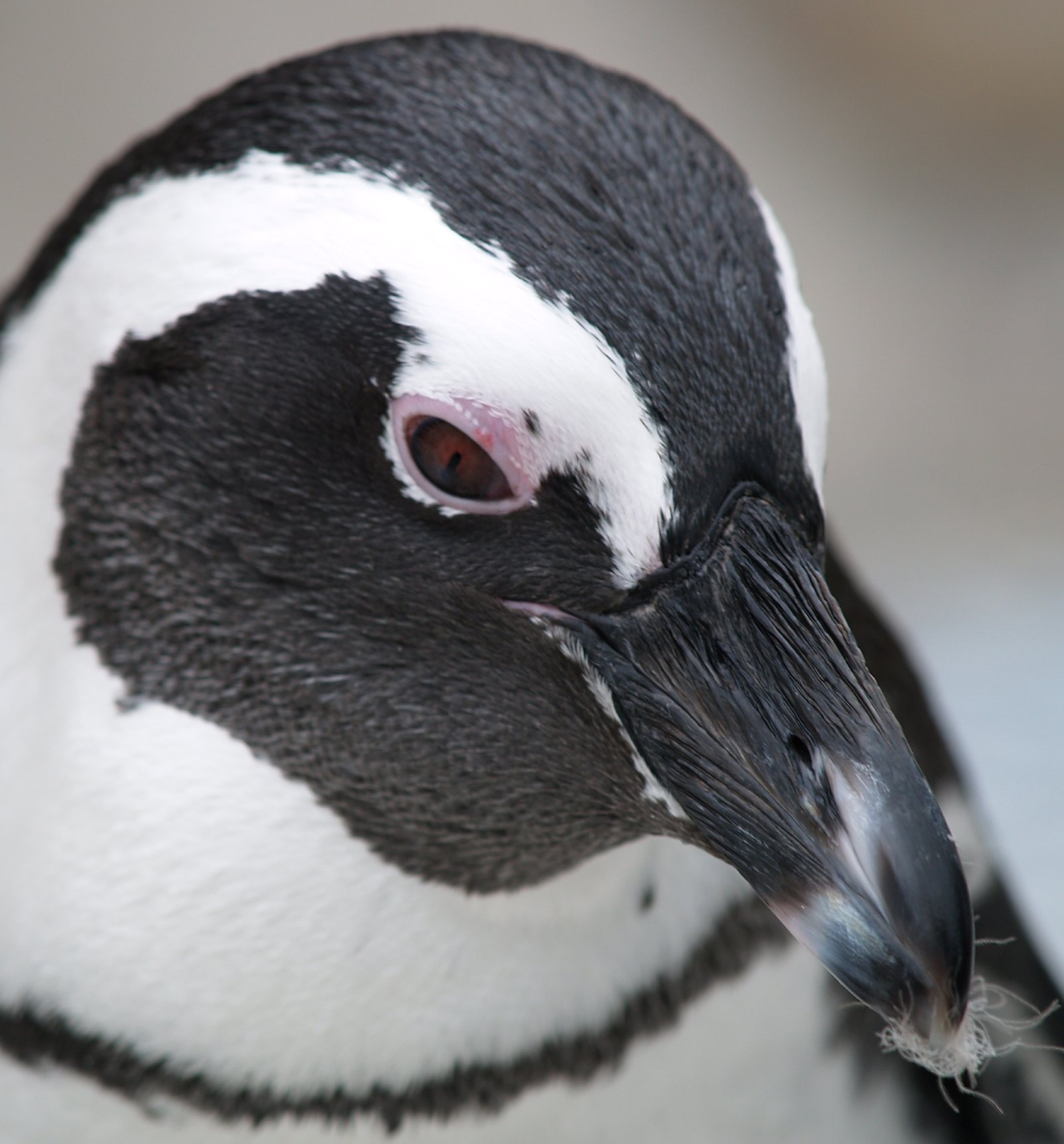 Close-up of an African Penguin (Spheniscus demersus) in the Wilhelma Zoological and Botanical Gardens Stuttgart.